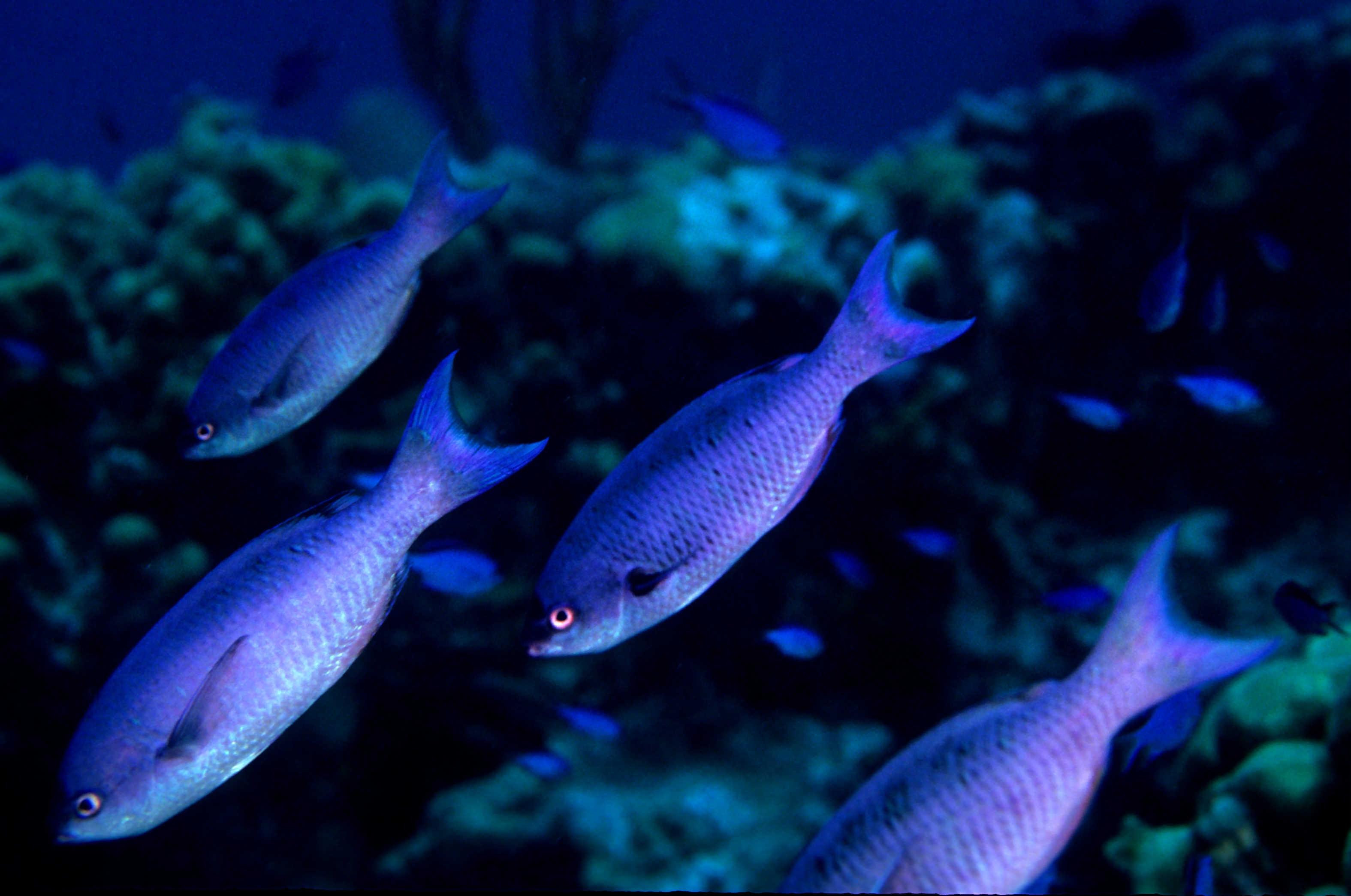 Creole wrasse (Clepticus parrae). Caribbean Sea.